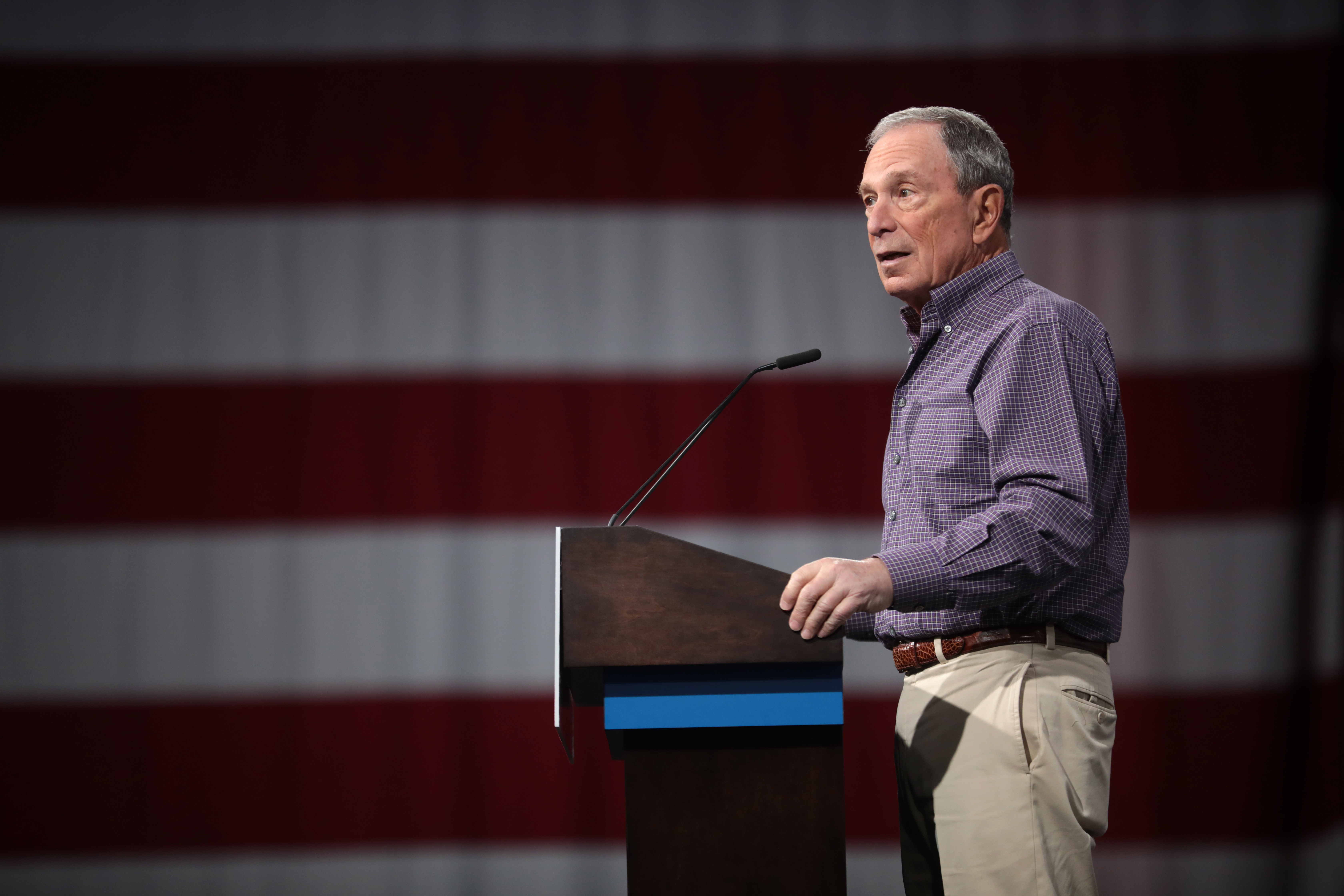 Former Mayor Michael Bloomberg speaking with attendees at the Presidential Gun Sense Forum hosted by Everytown for Gun Safety and Moms Demand Action at the Iowa Events Center in Des Moines, Iowa.